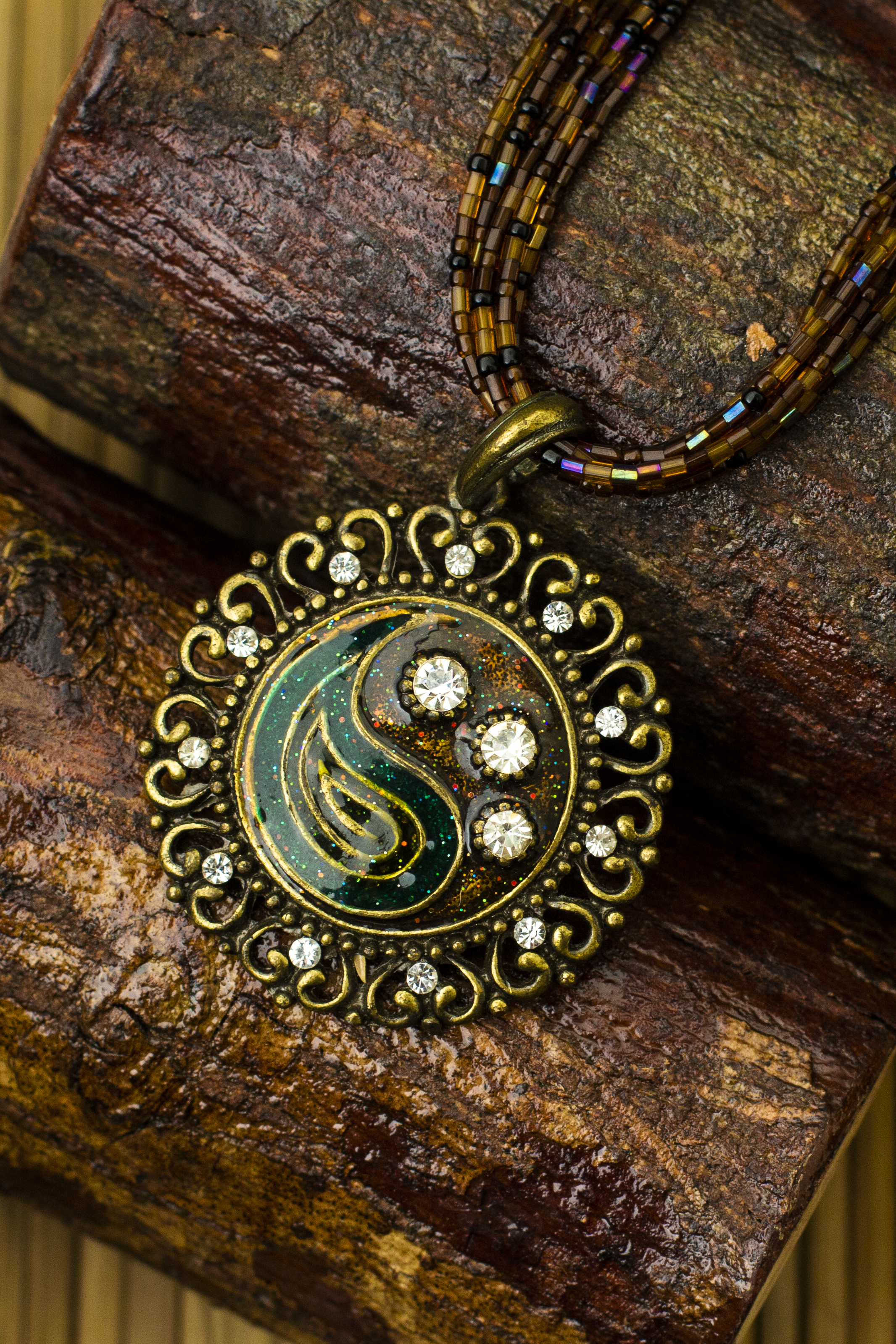 Copper Ornaments